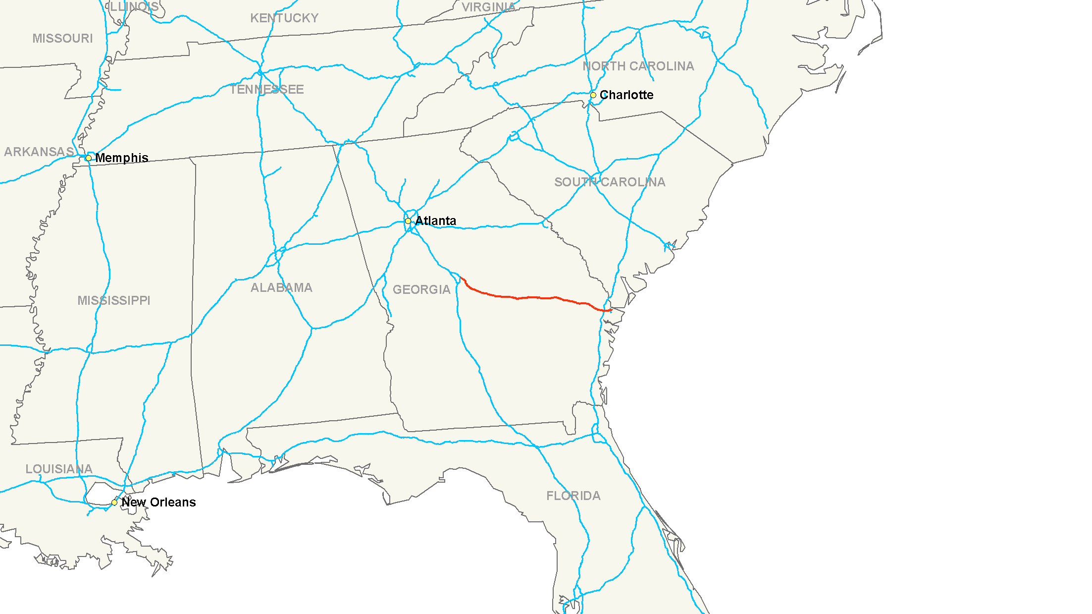 Map of Interstate 16